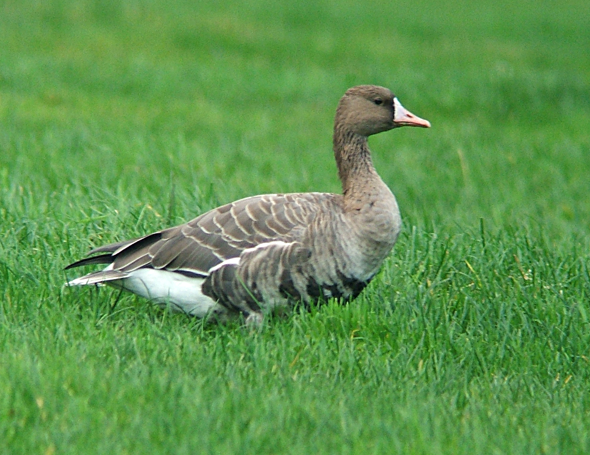 Anser albifrons albifrons, Swallow Pond, Northumberland. One of flock of eight birds.